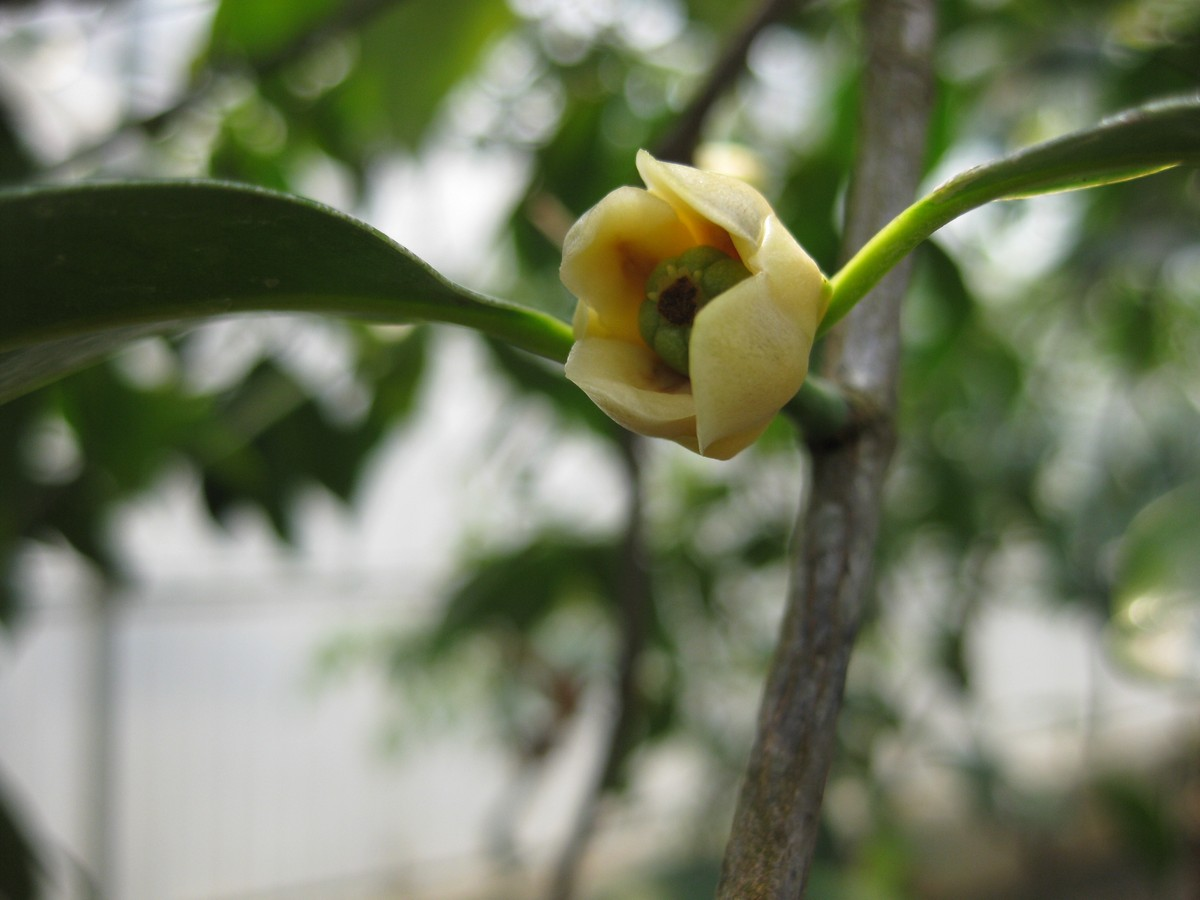 Photographed at the Queen Sirikit Botanic Garden (Chiang Mai Province, Thailand) in March